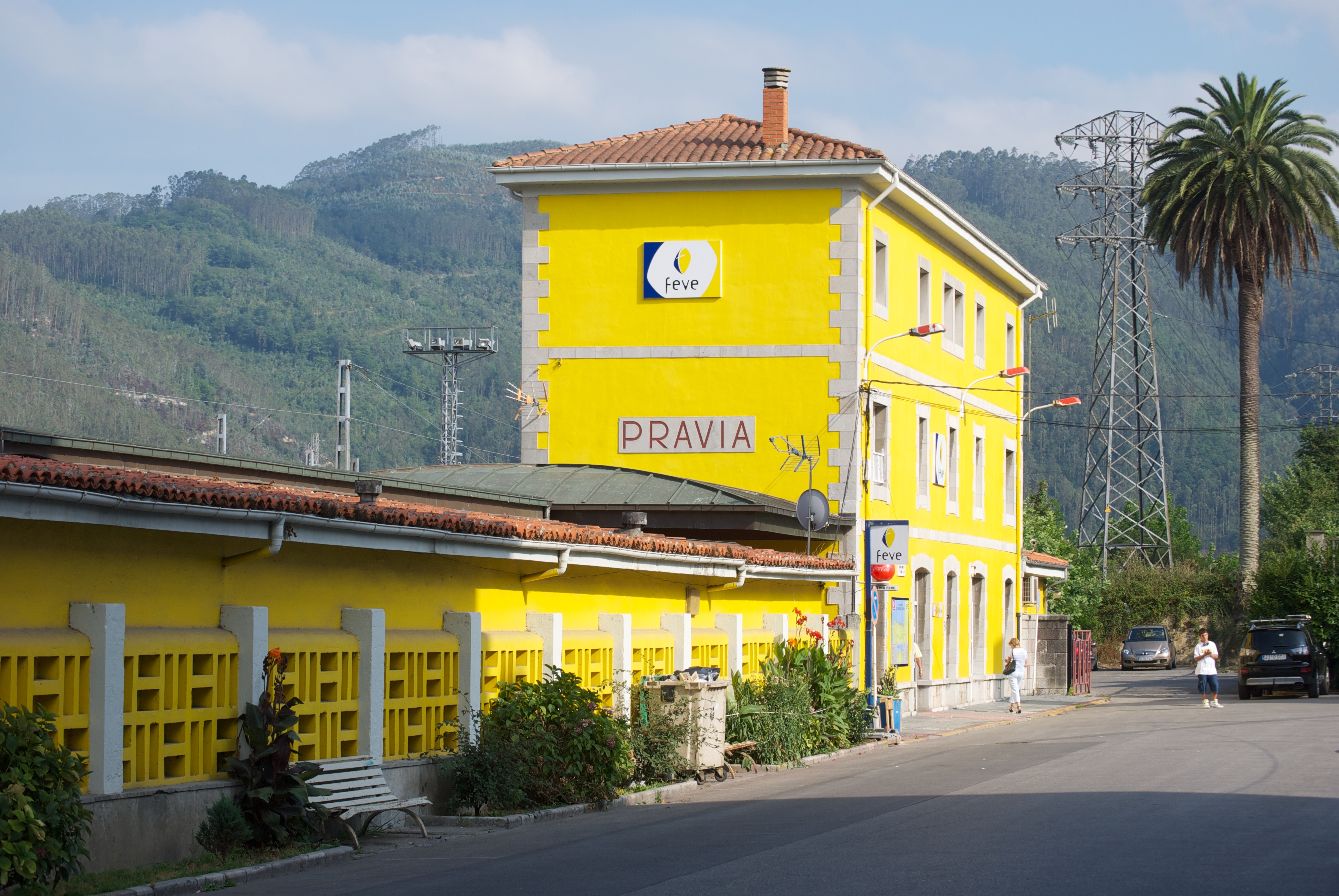 Exterior of the FEVE railway station in Pravia, Spain